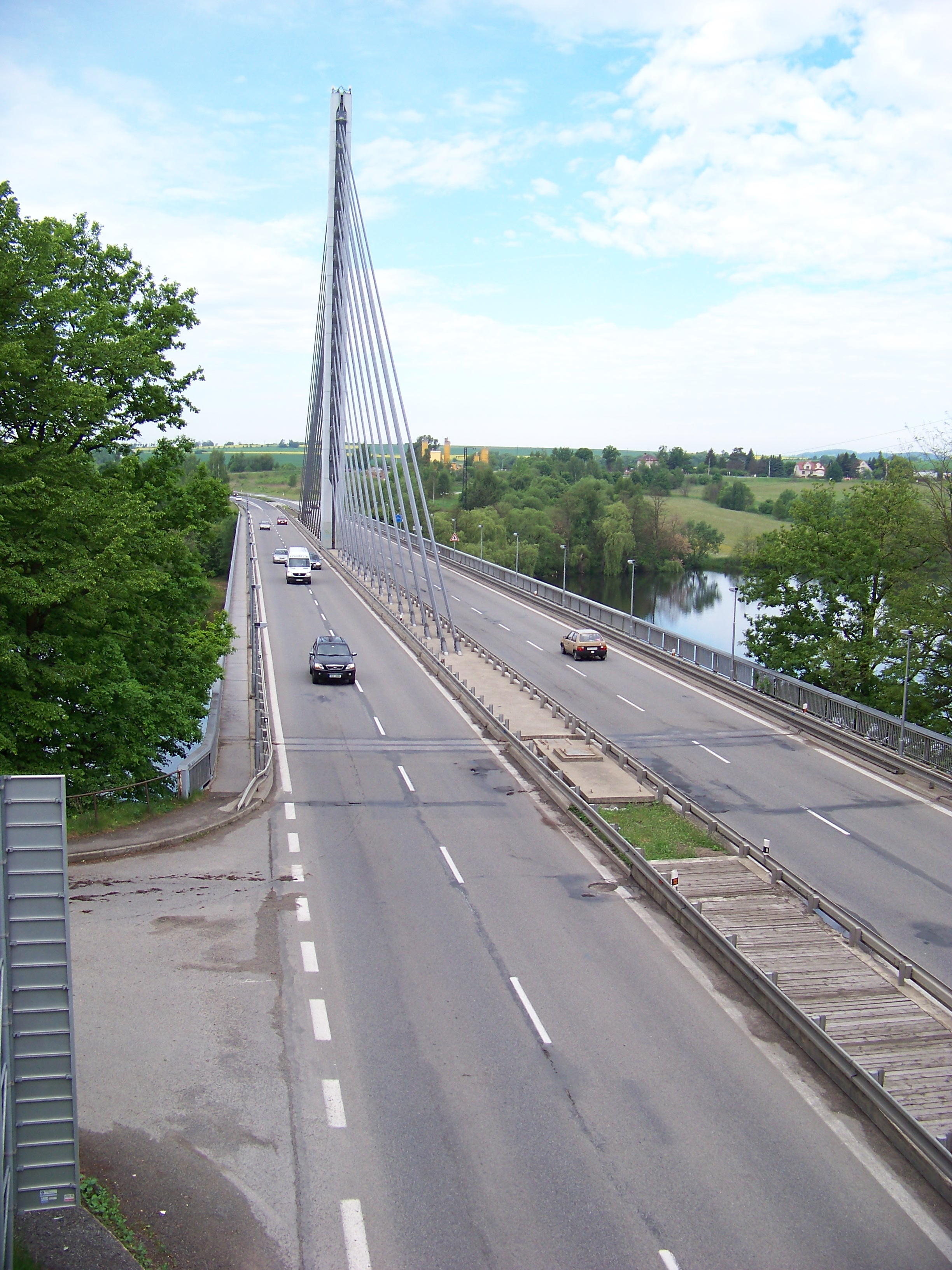 Tábor, Tábor District, South Bohemian Region, the Czech Republic. A bridge over of the road I/19 over Jordán Pond.